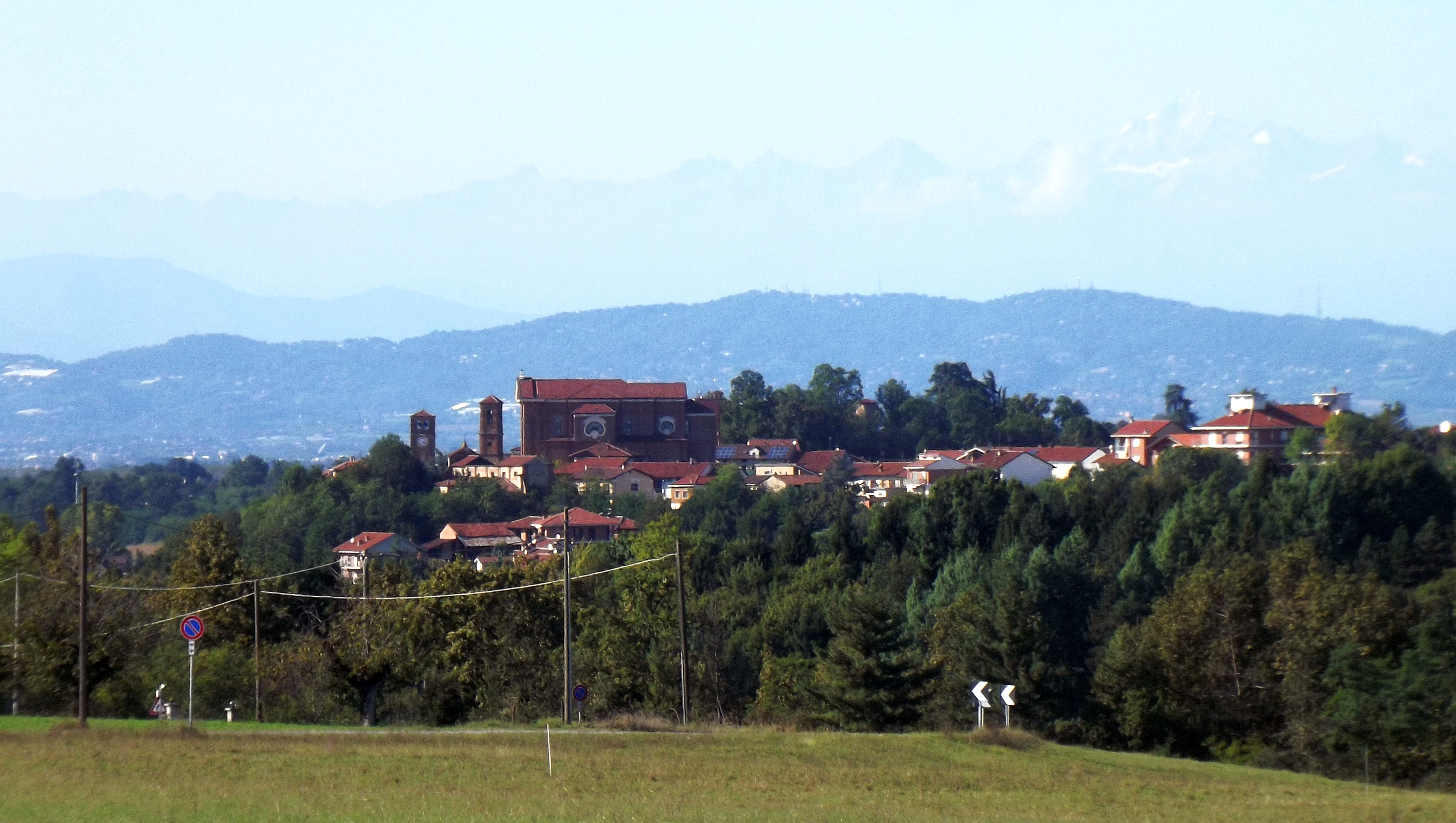 Pralormo (TO, Italy): panorama from Madonna della Spina sanctuary